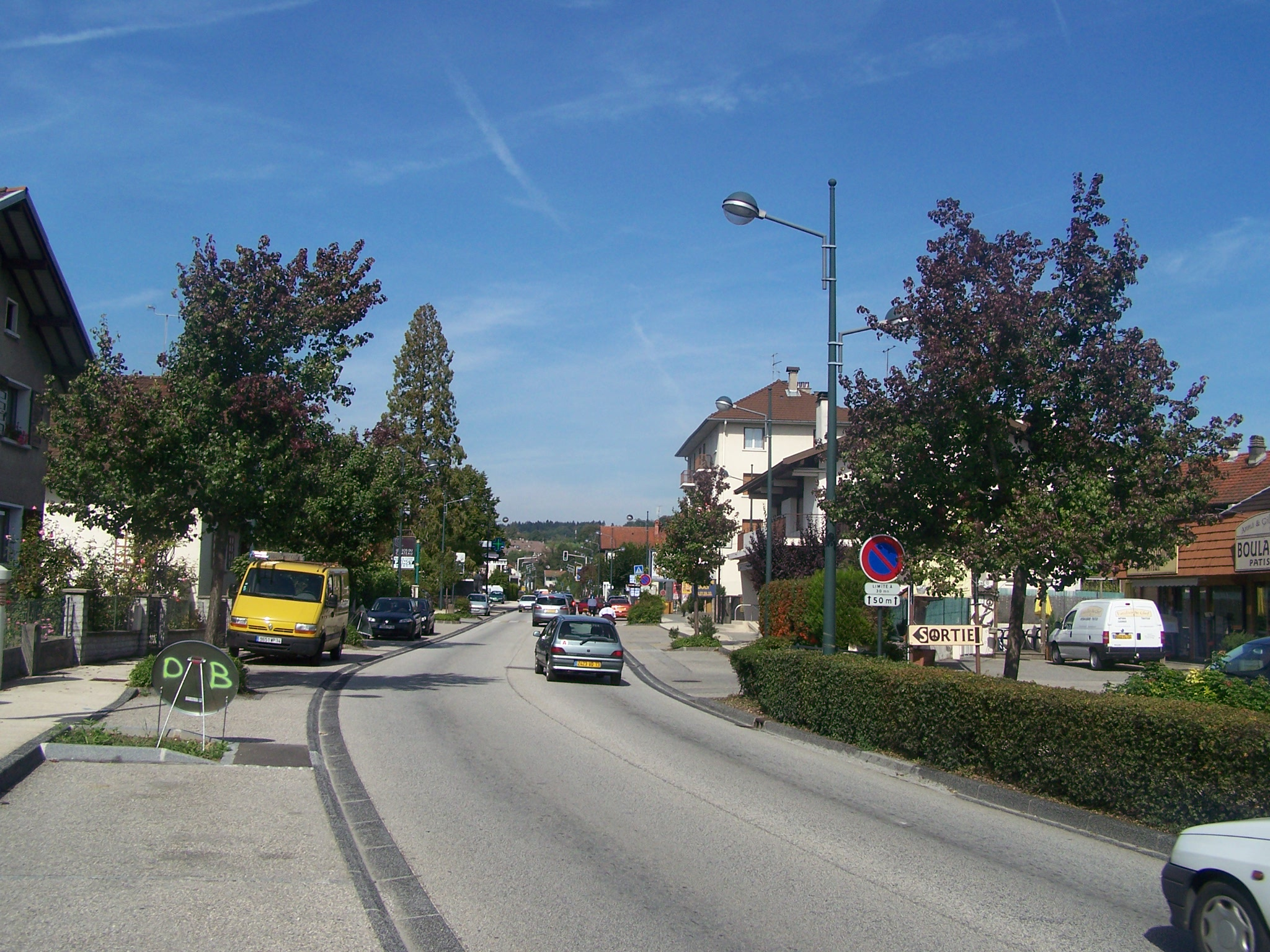 Main street of the French city of Pringy in Haute-Savoie.